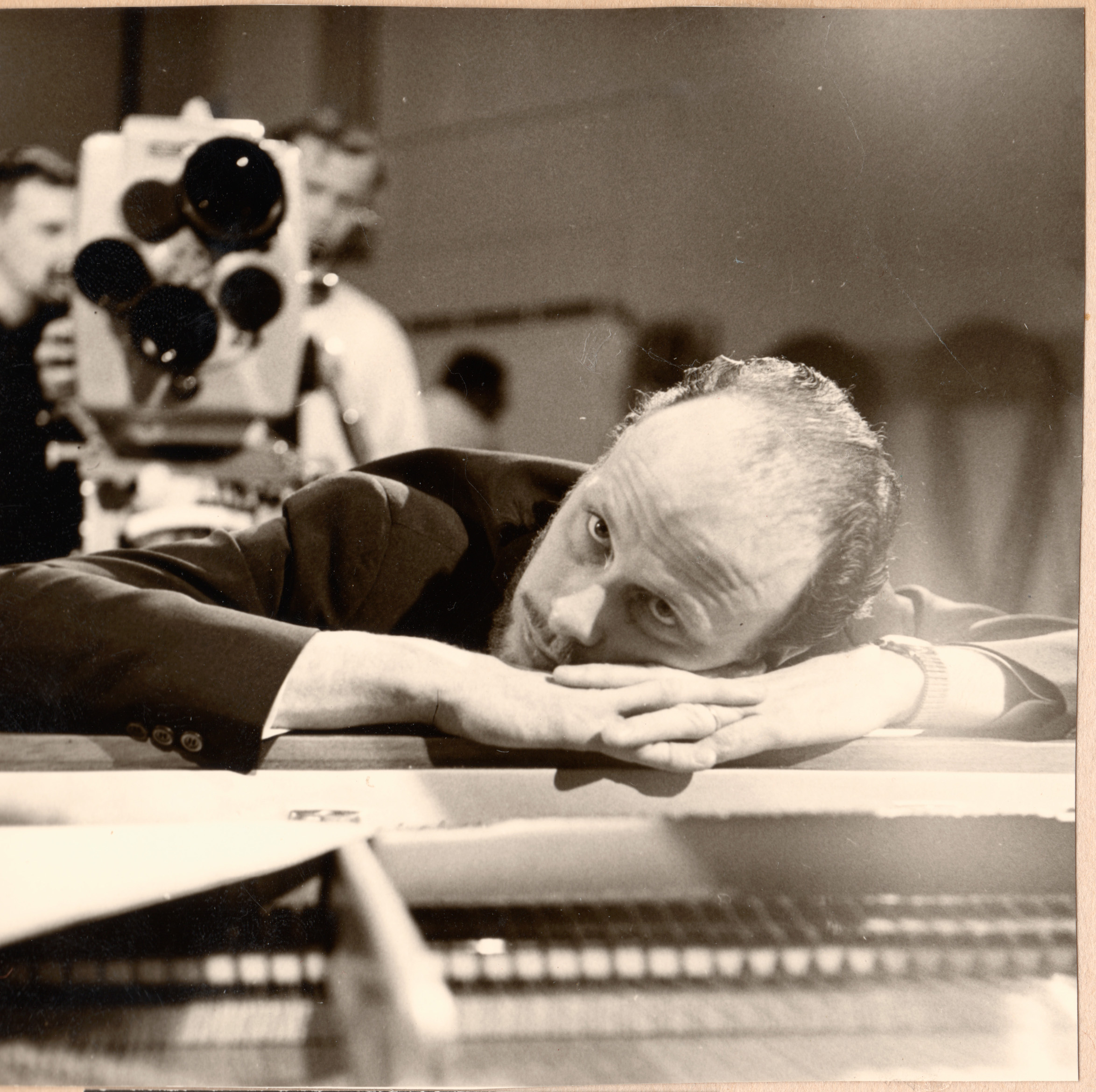 Swedish jazz piano player Jan Johansson at a TV-concert..